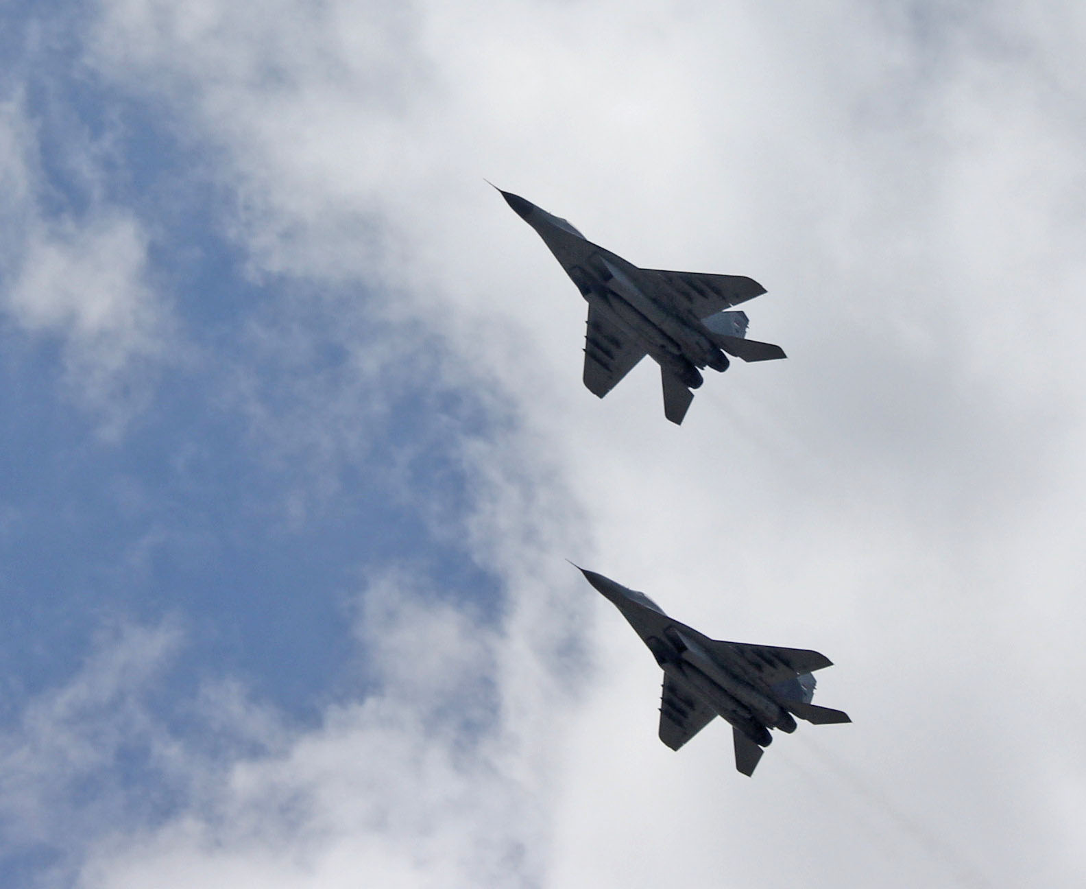 Serbian Air Force MiG-29 fighters at military parade in Niš.